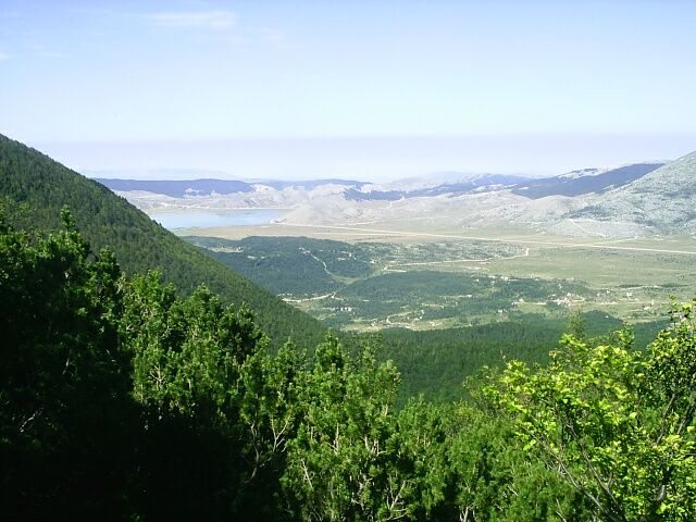 Blidinsko polje (karst field) in Bosnia and Herzegovina